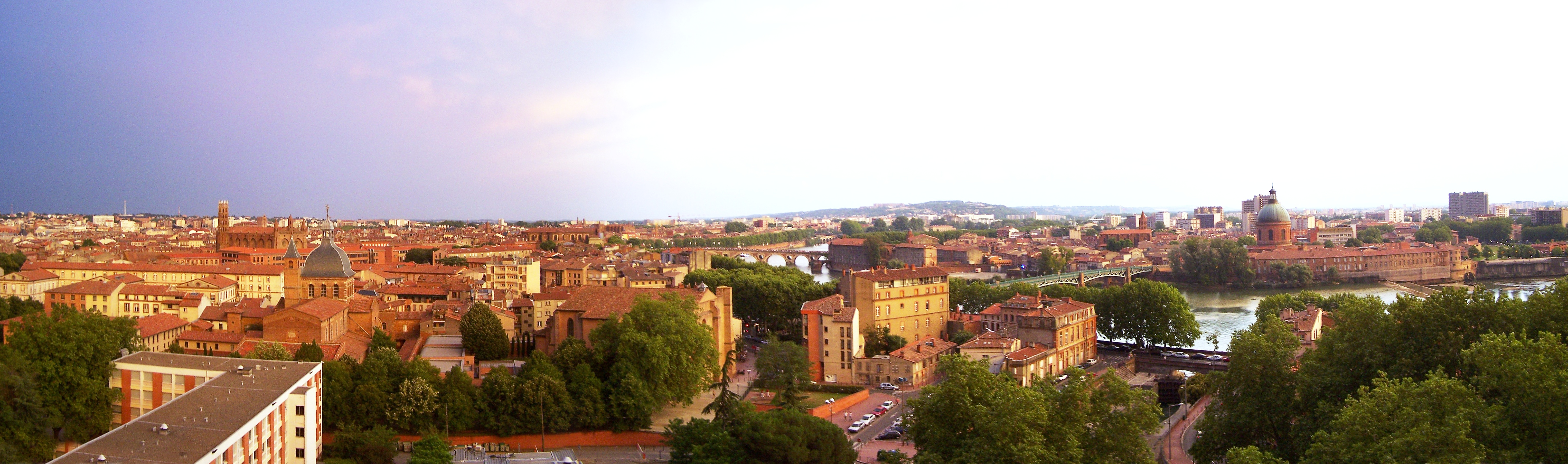 Toulouse skyline panorama (France), from a building near place Saint-Pierre, right hand.